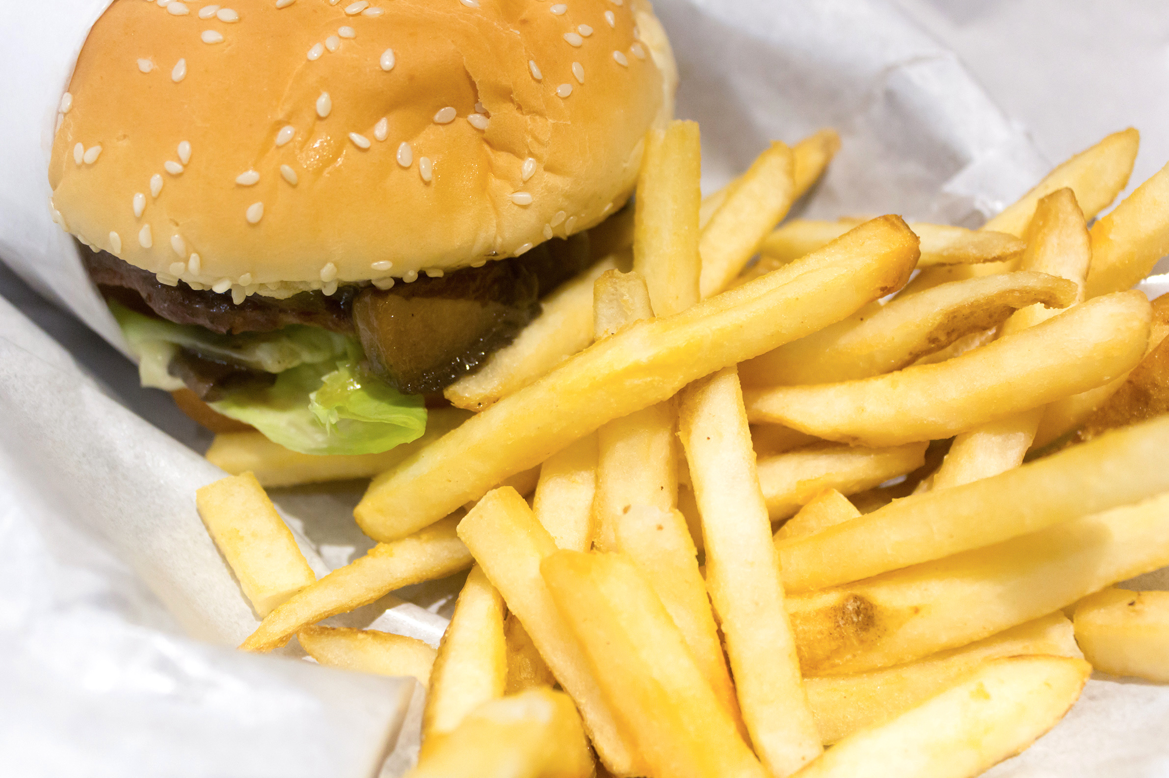 Carl's Jr portobello mushroom burger and fries, Plaza Semanggi, Indonesia 2018-06-26